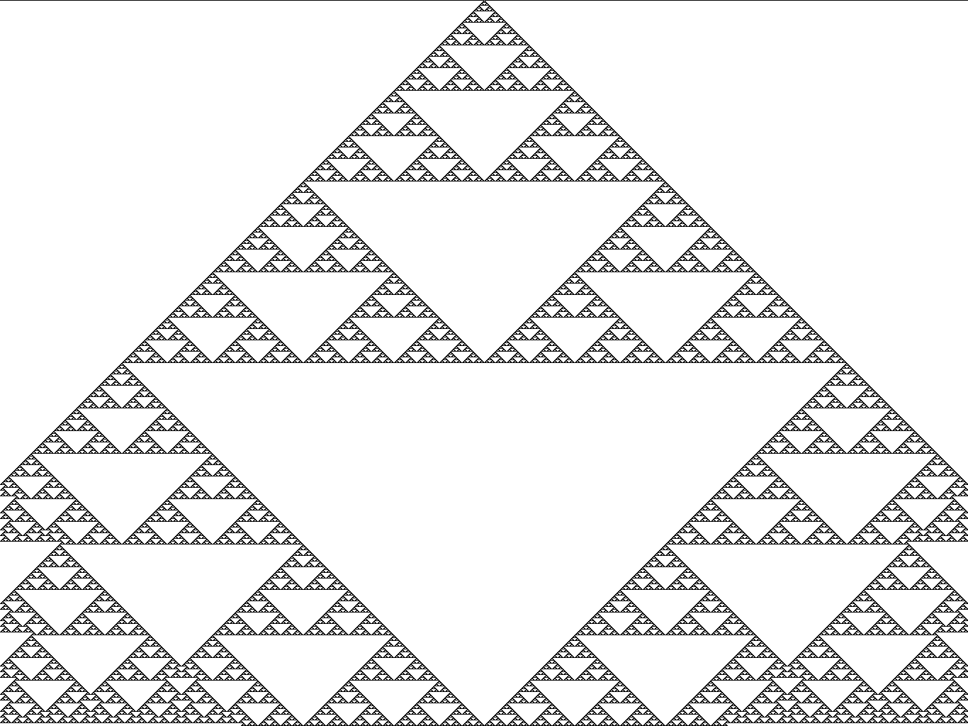 Правило 161